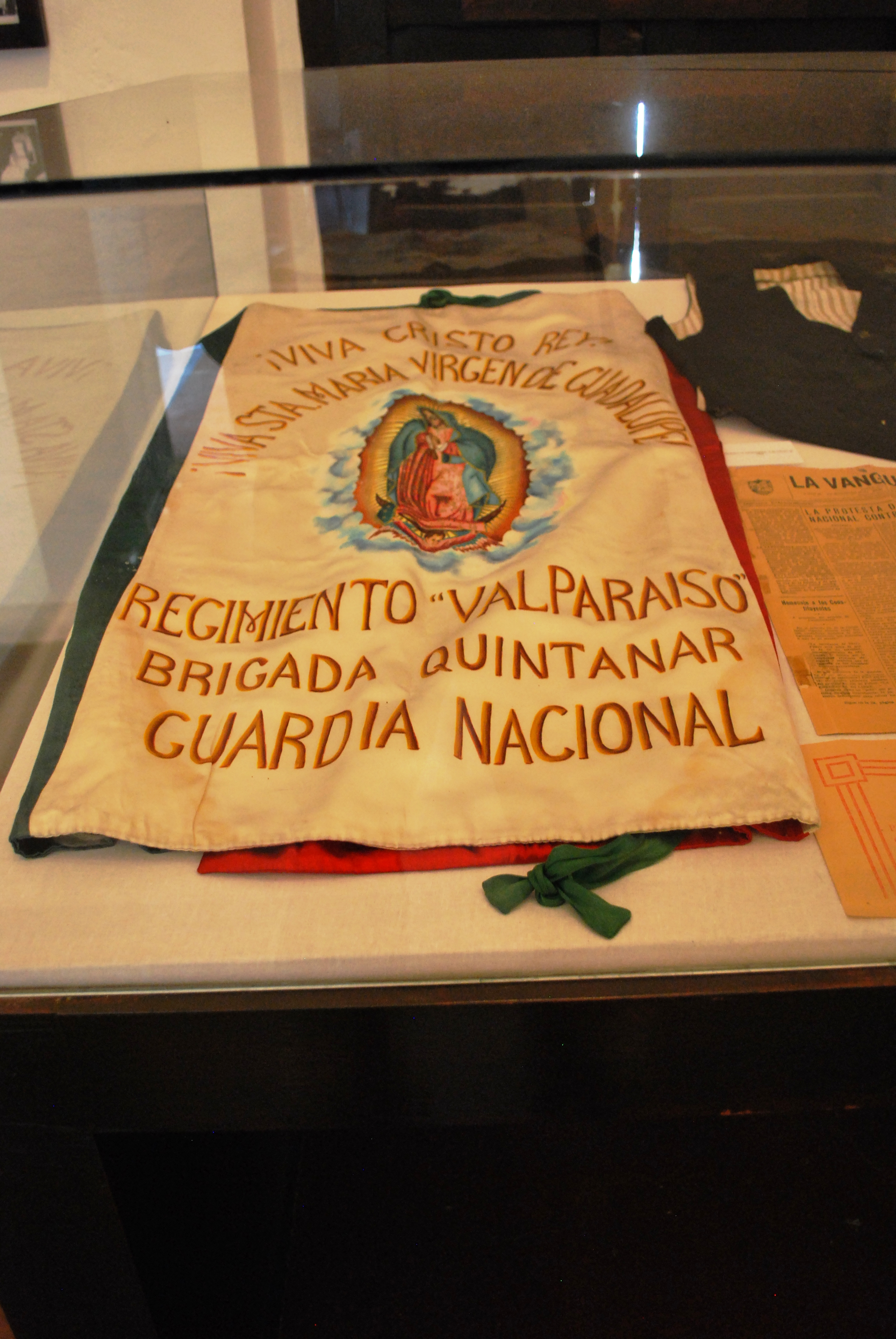 Flag of Cristero supporters at the Centro de Estudios Cristeros, Encarnación de Díaz